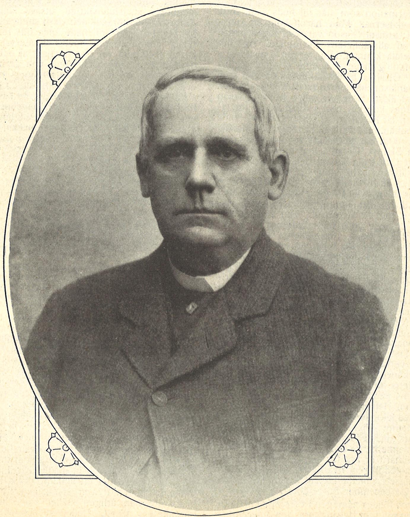 Petter Olsson (1830-1911), Swedish businessman, industrialist, member of parliament and German consul in Helsingborg.